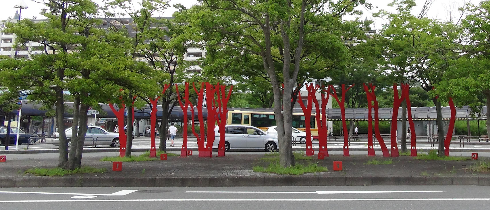 Sculpture in aluminum, paint, height 3m / 9.8 ft., Hongodai Station, Yokohama. Image courtesy: ©Oscar Oiwa Studio, NY.